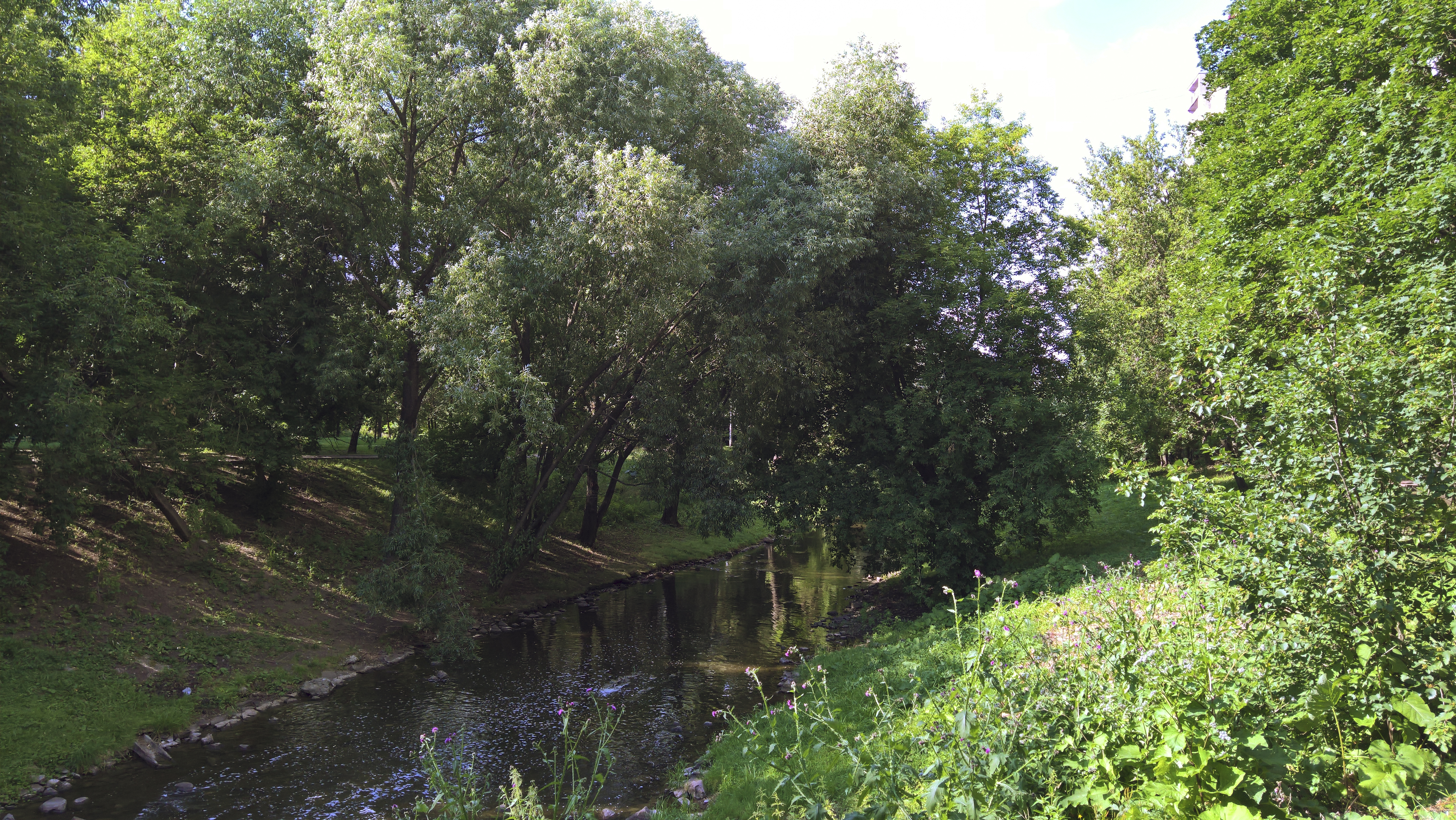 Lihoborka river near 3 Lihoborsky proezd